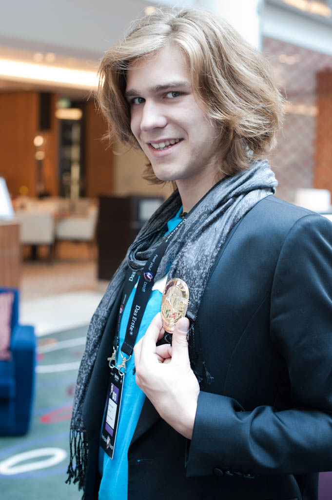 Amaury Vassili - French contestant at Eurovision Song Contest 2011